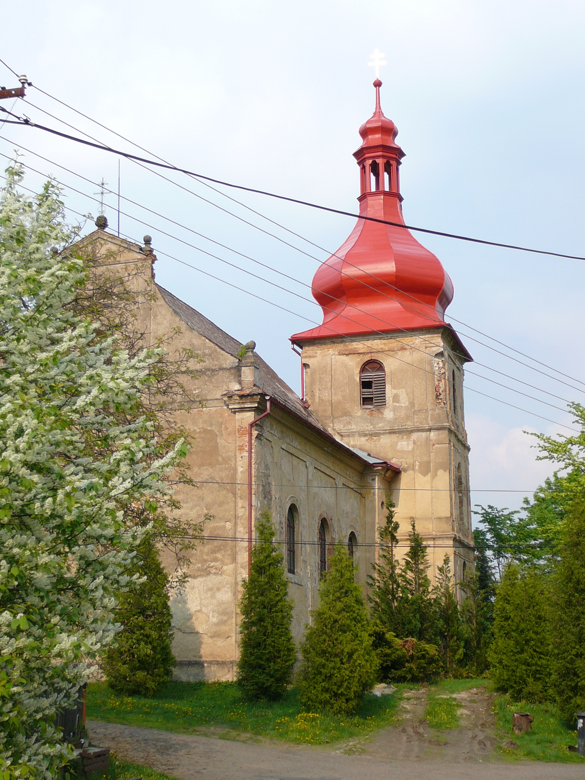 Church of St. James (Domaslav, Tachov District)